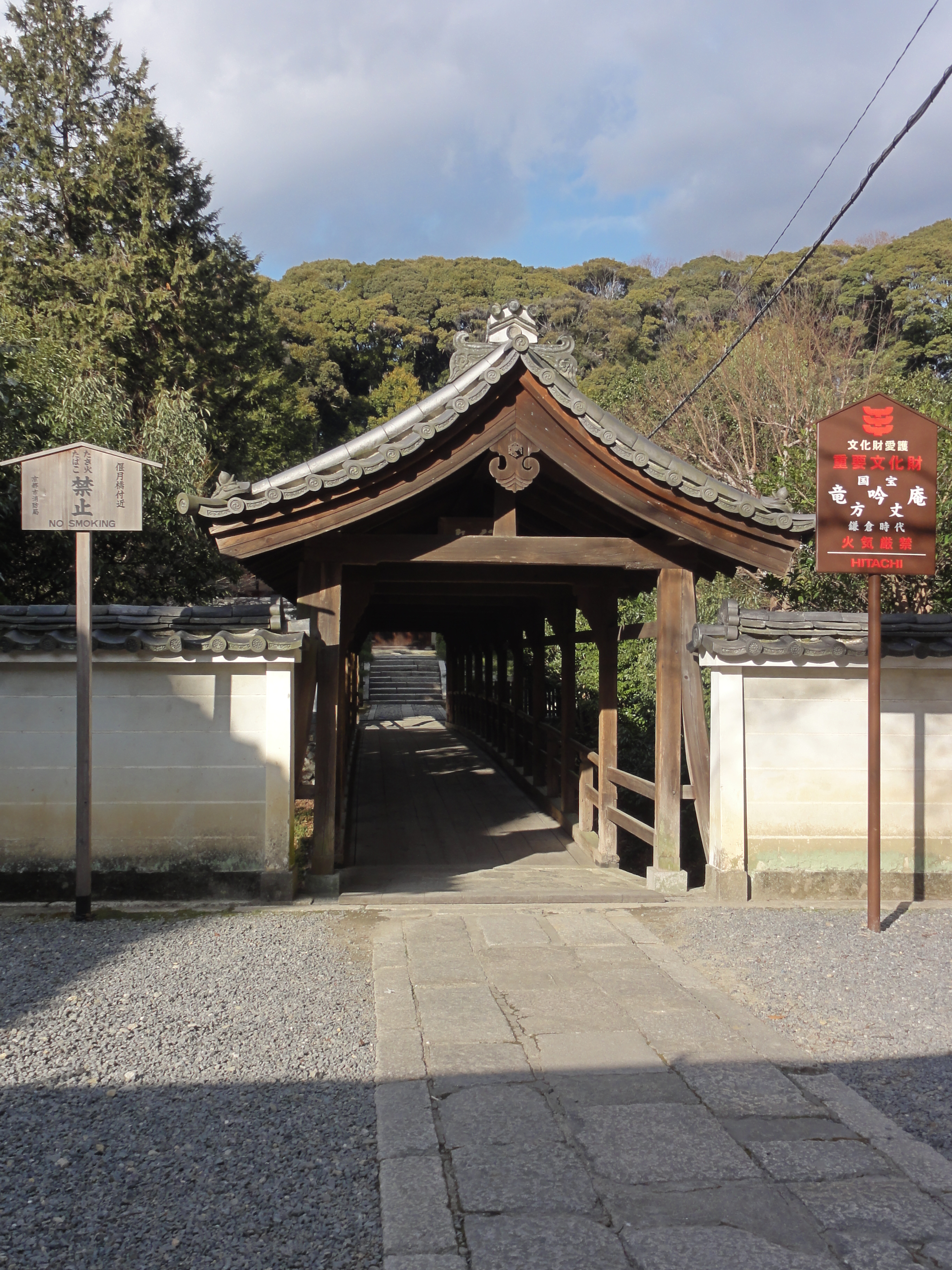 Engetsukyo in Tofukuji,Kyoto Pref., Japan